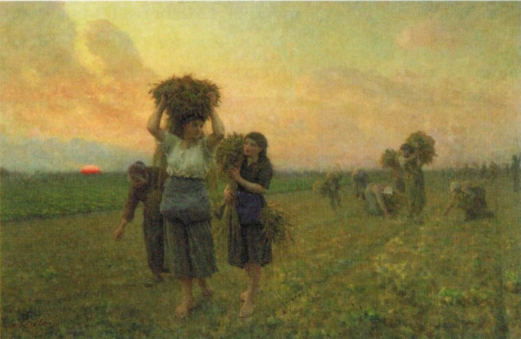 The Last Gleanings